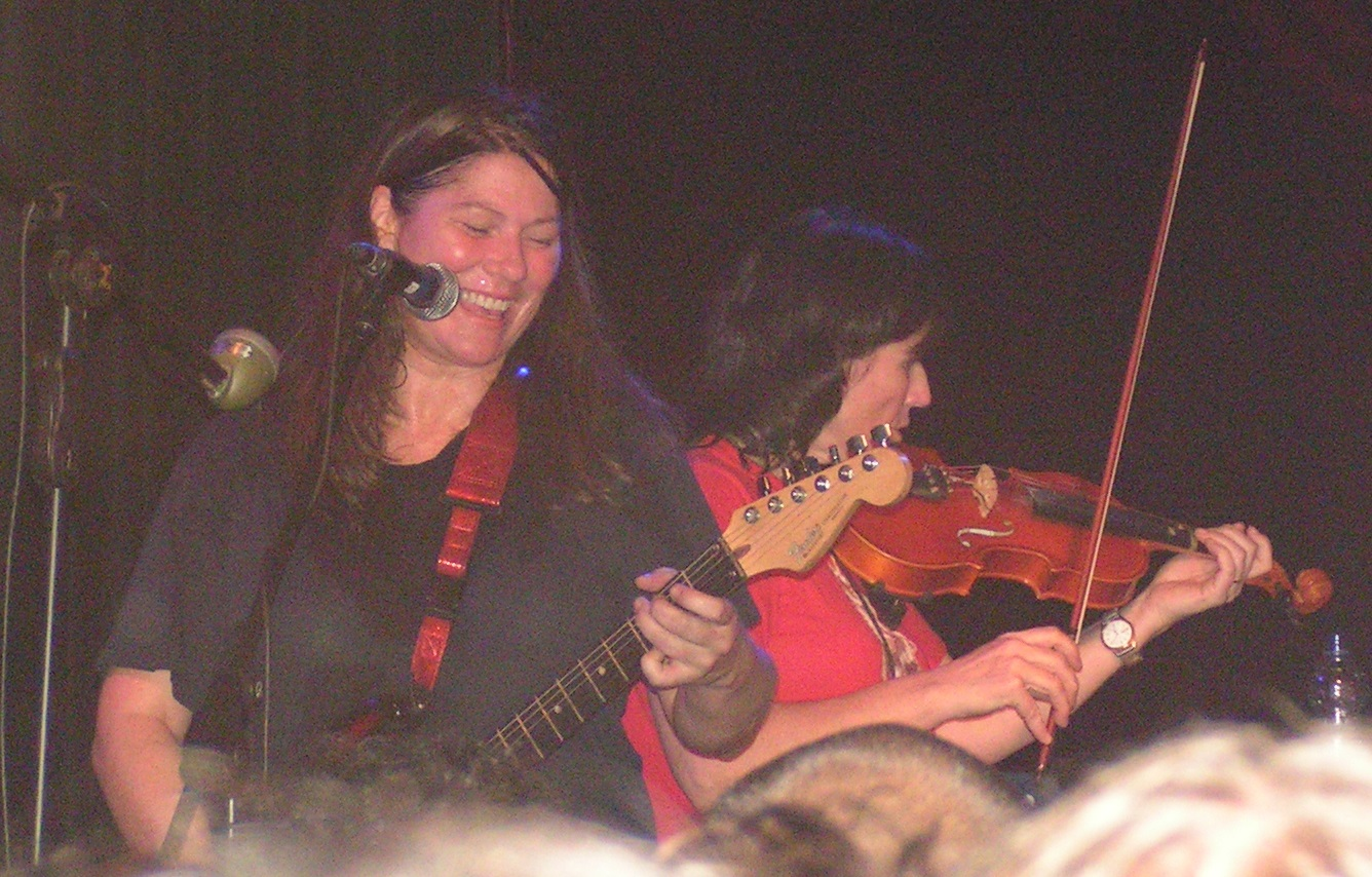 Kim Deal and Kelley Deal performing the song Driving on 9, The Breeders live in the Zappa club, Tel Aviv, Israel, August 22, 2008